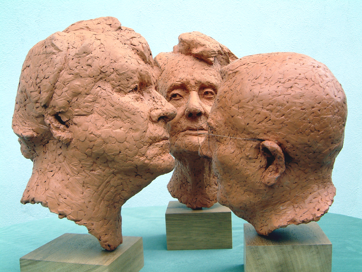 Environment Triptych (Terracotta, 2008) original artwork by sculptor Jon Edgar from artist-invited sittings in 2006/2007 with scientist James Lovelock, author Richard Mabey and philosopher Mary Midgley.)